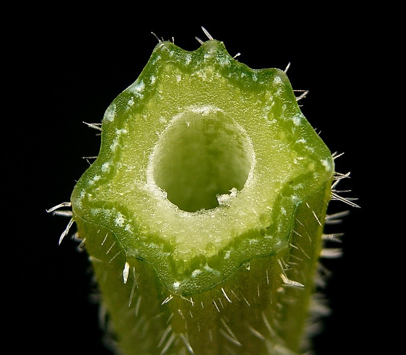 Heracleum sphondylium